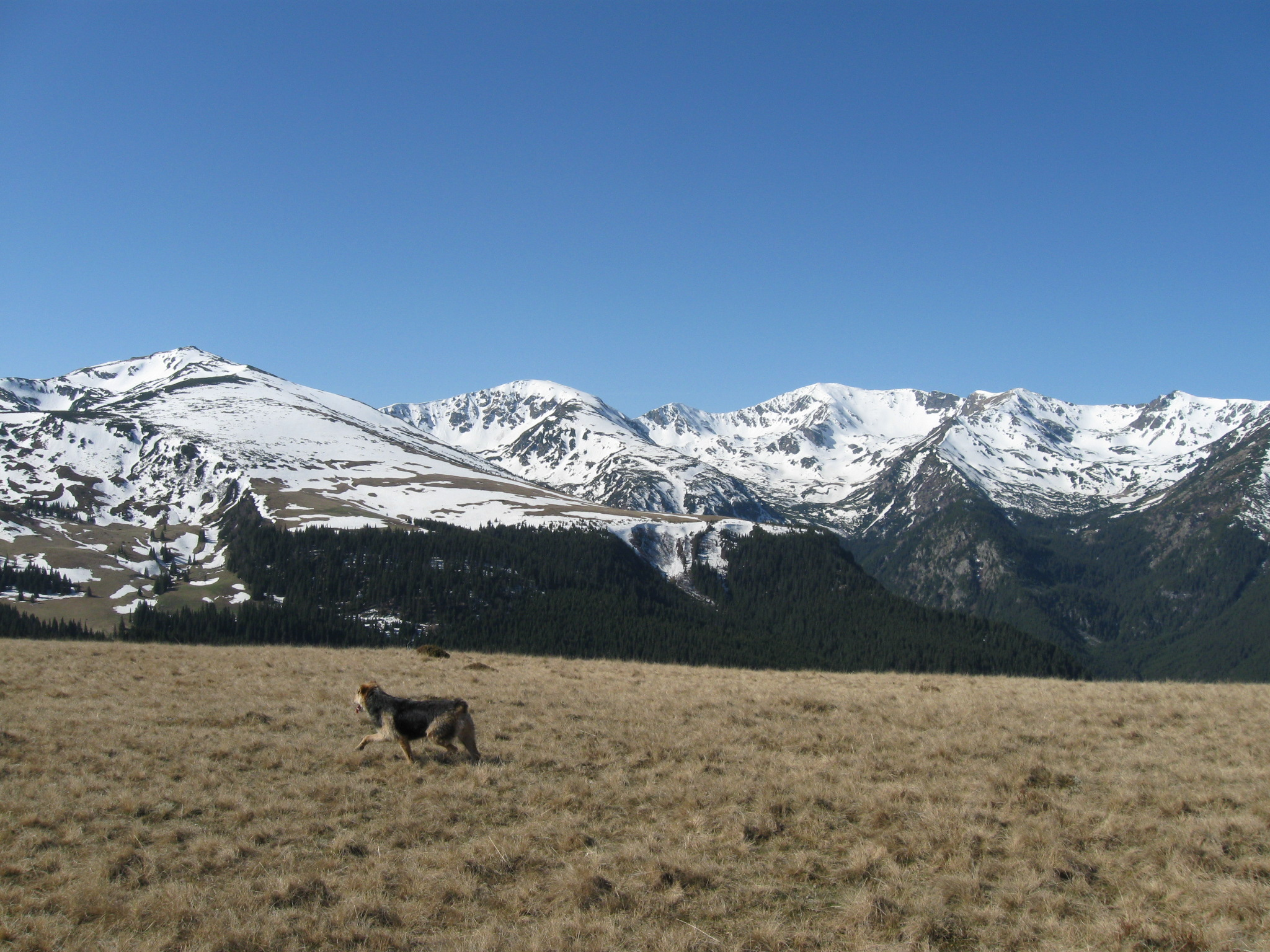 View of the Parang mountains main ridge. The leftmost peak is Gaurile while the highest peak (Parangu Mare 2519) is visible just to the right of the image center.